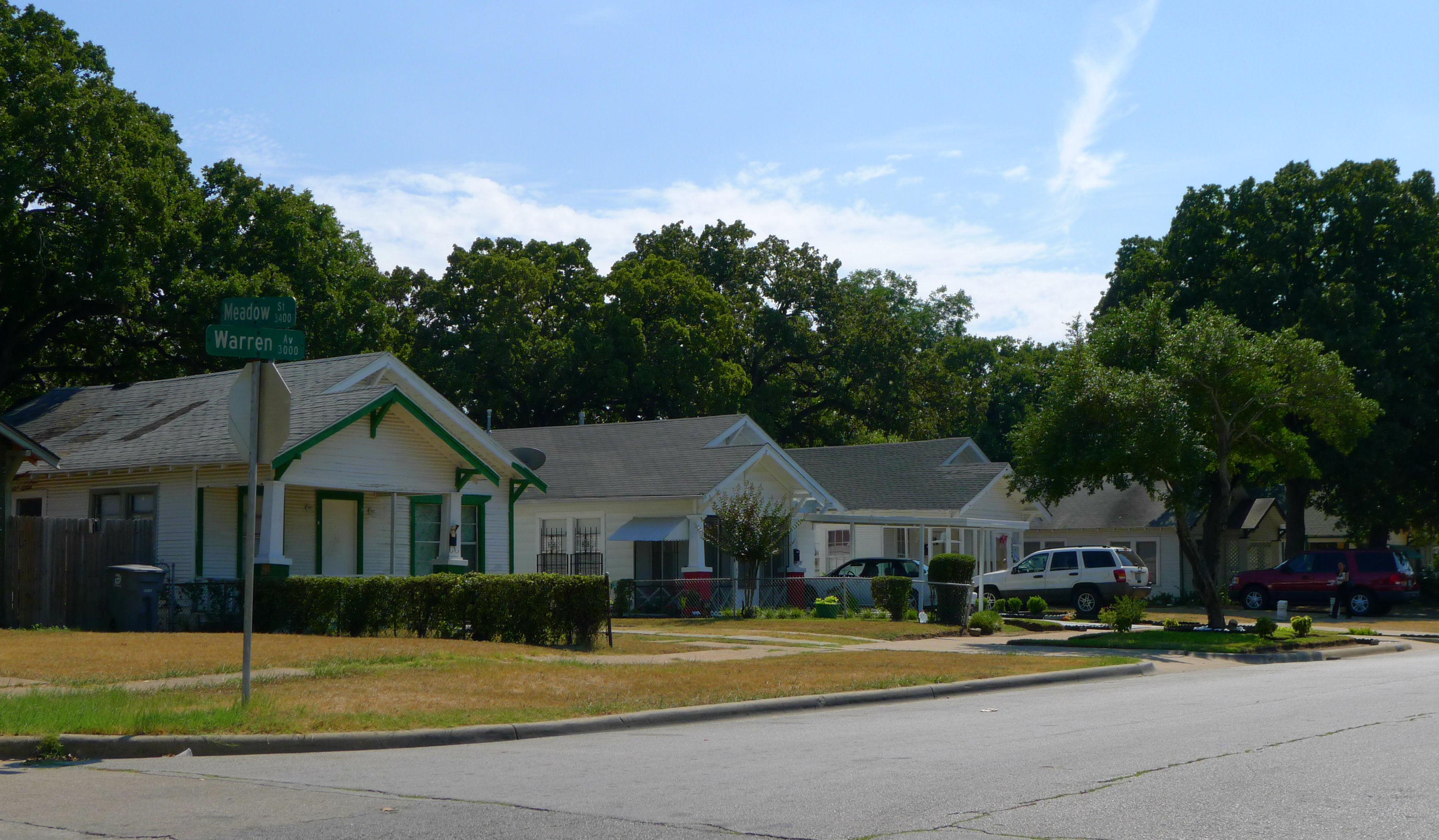 Housing on the corner of Warren and Meadow in Wheatley Place Historic District, Bounded by Warren, Atlanta, McDermott, Meadow, Oakland and Dathe Dallas